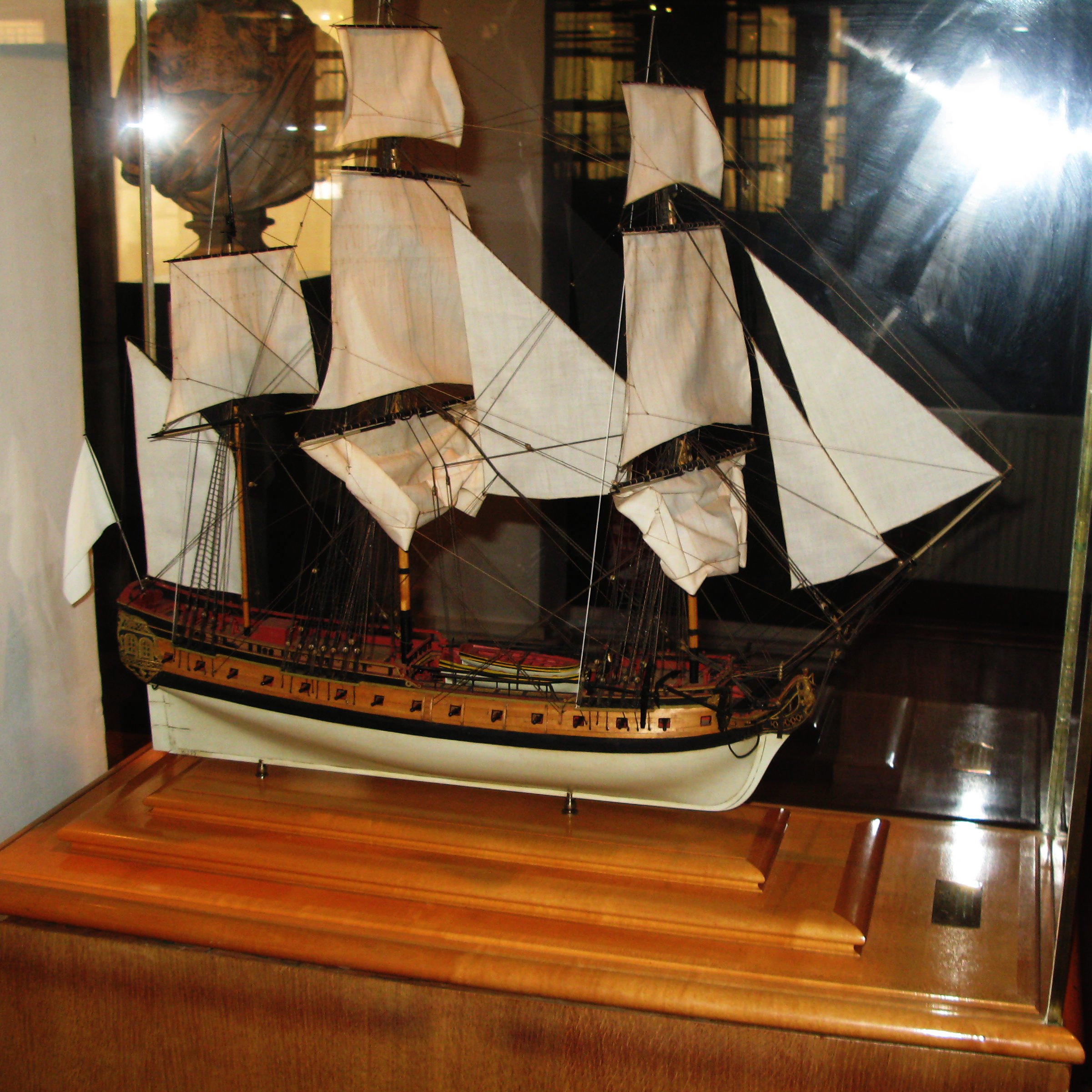 Model of a 28-gun frigate of the Ancien Régime On display at Toulon naval museum.